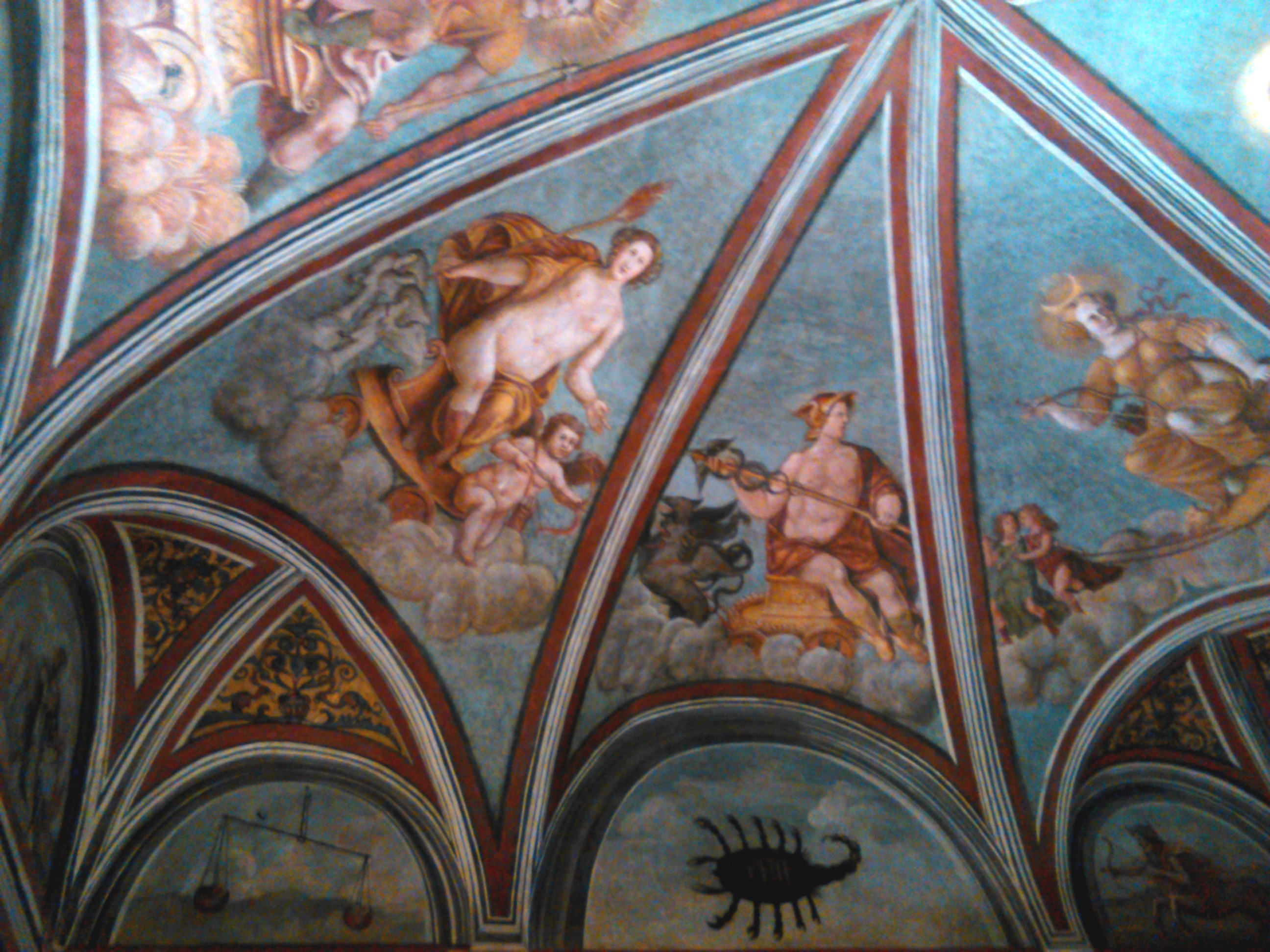 Luini's Frescos in "Casa degli Atellani", in Milan